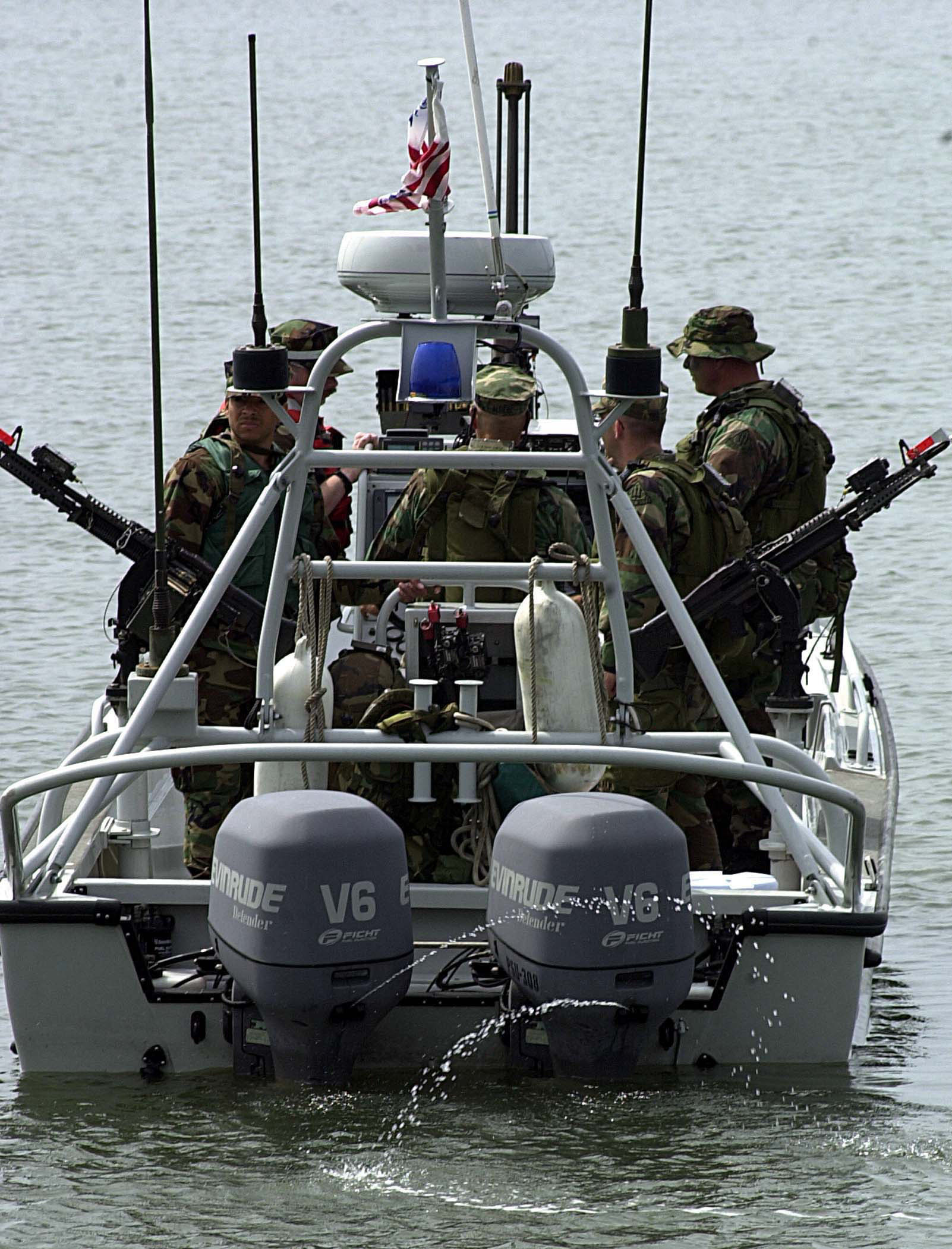 CAMP LEJEUNE, N. C.(Sept. 27)--A 25-foot Boston Whaler and its U.S. Coast Guard crew takes off from the coast of Mile Hammock Bay here in preparing an excercise that was held here for the last three weeks. The crew is part of the Port Security Unit 308 from Gulfport, Miss. USMC photo by Lance Cpl. Douglass P. Gilhooly